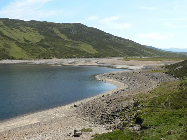 Southern end of Loch Garry. The area of bare sand shows how the water level has dropped during summer extraction of water for hydro-electricity.